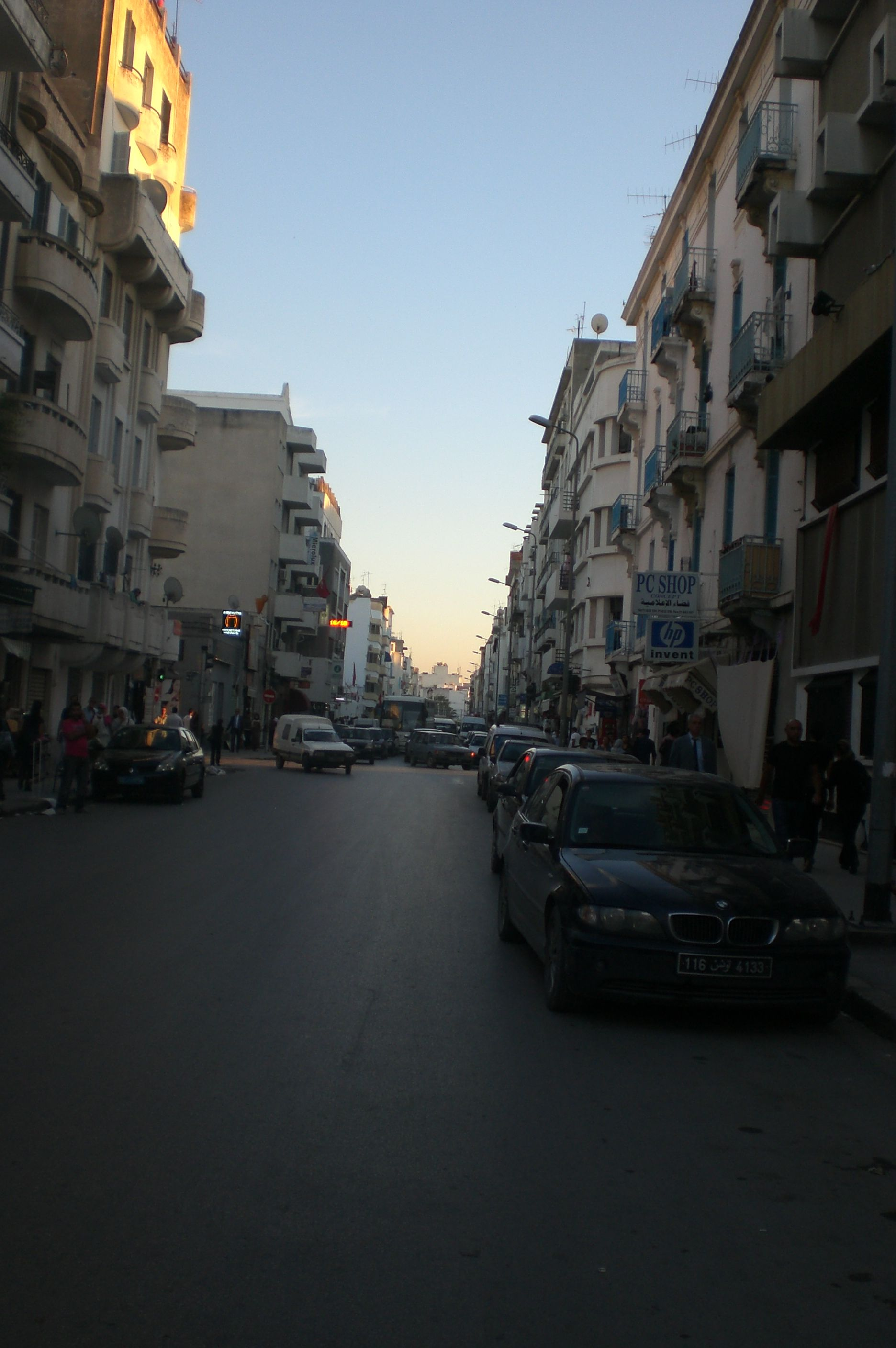 Rue Palestine in Tunis